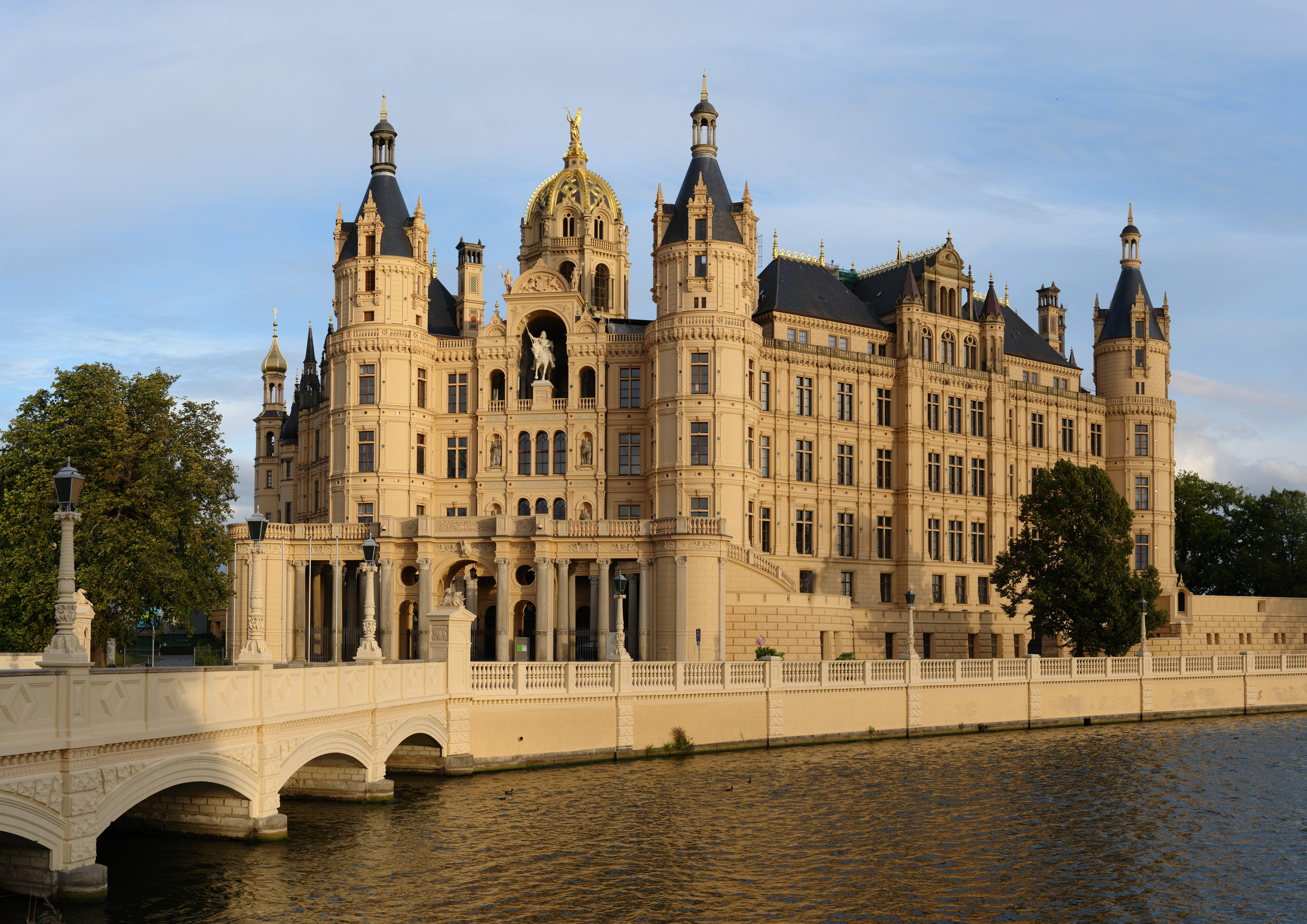 front aspect of Schwerin Castle, Germany